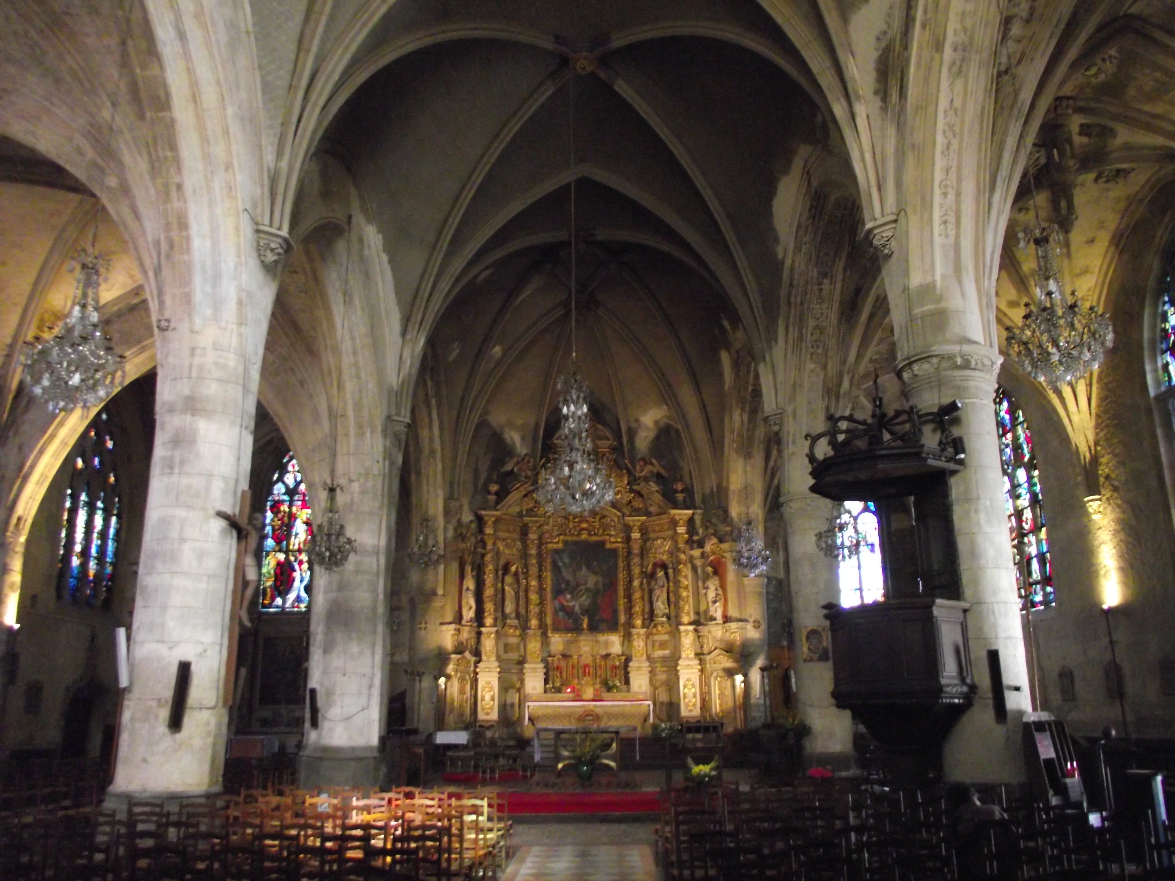 L'Aigle, Saint Martin's Church, XI-XVI Century